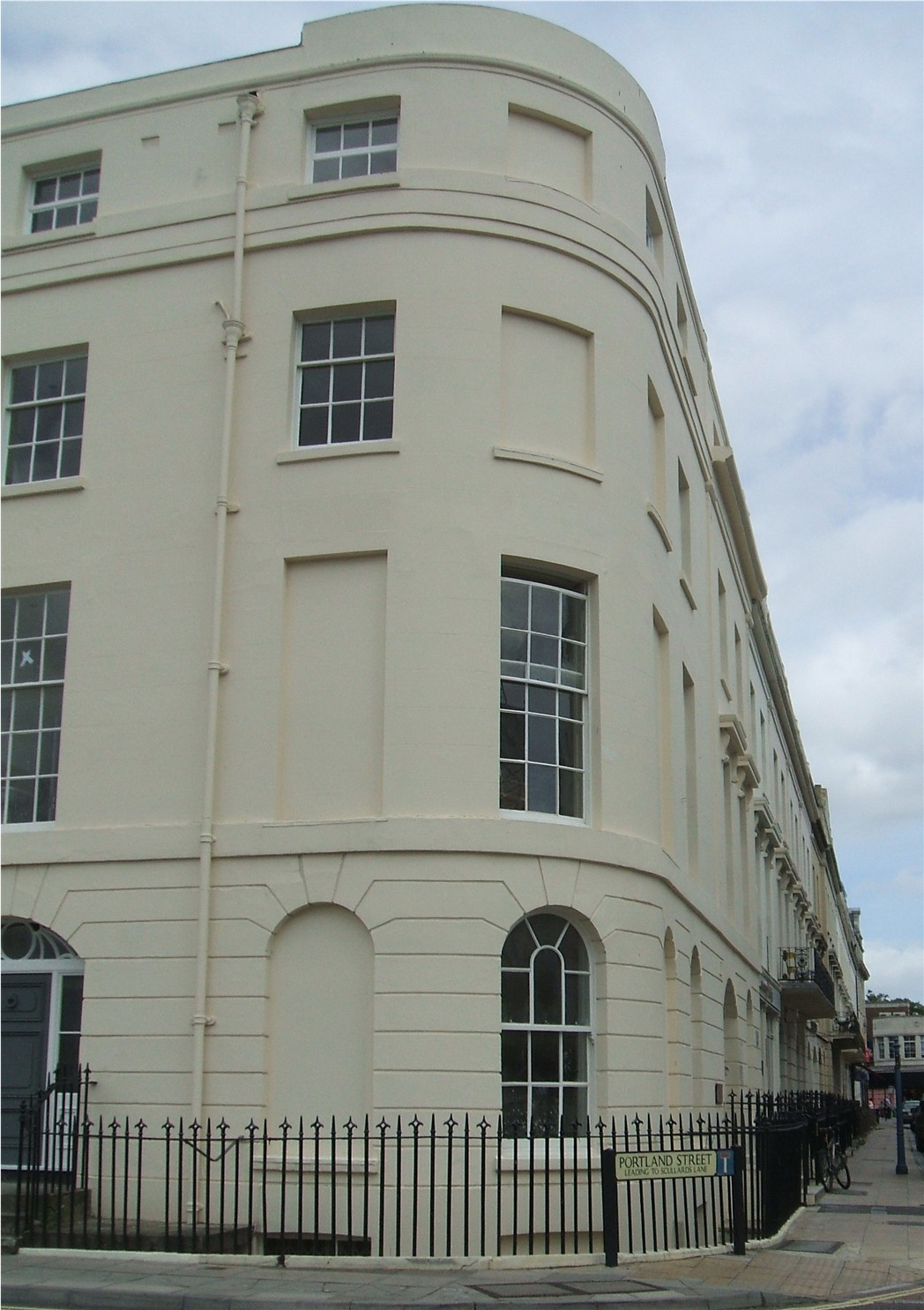 Window Tax - This is how property owners circumvented the Window Tax in the 17th and 18th Century. Photo - Portland Street, Southampton, England SO14. This row of properties was constructed in 1830, and is a Grade II listed building.